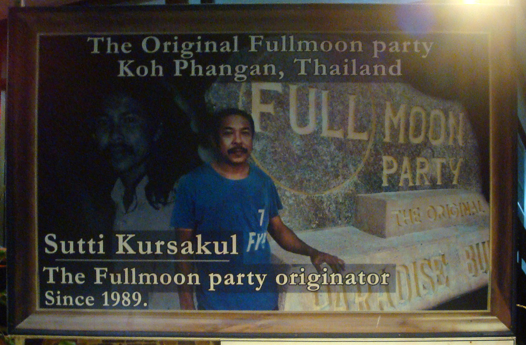 Fullmoon party originator since 1989, Sutti Kursakul. Poster at Paradise Bungalows, Haad Rin, Koh Phangan, 2016.